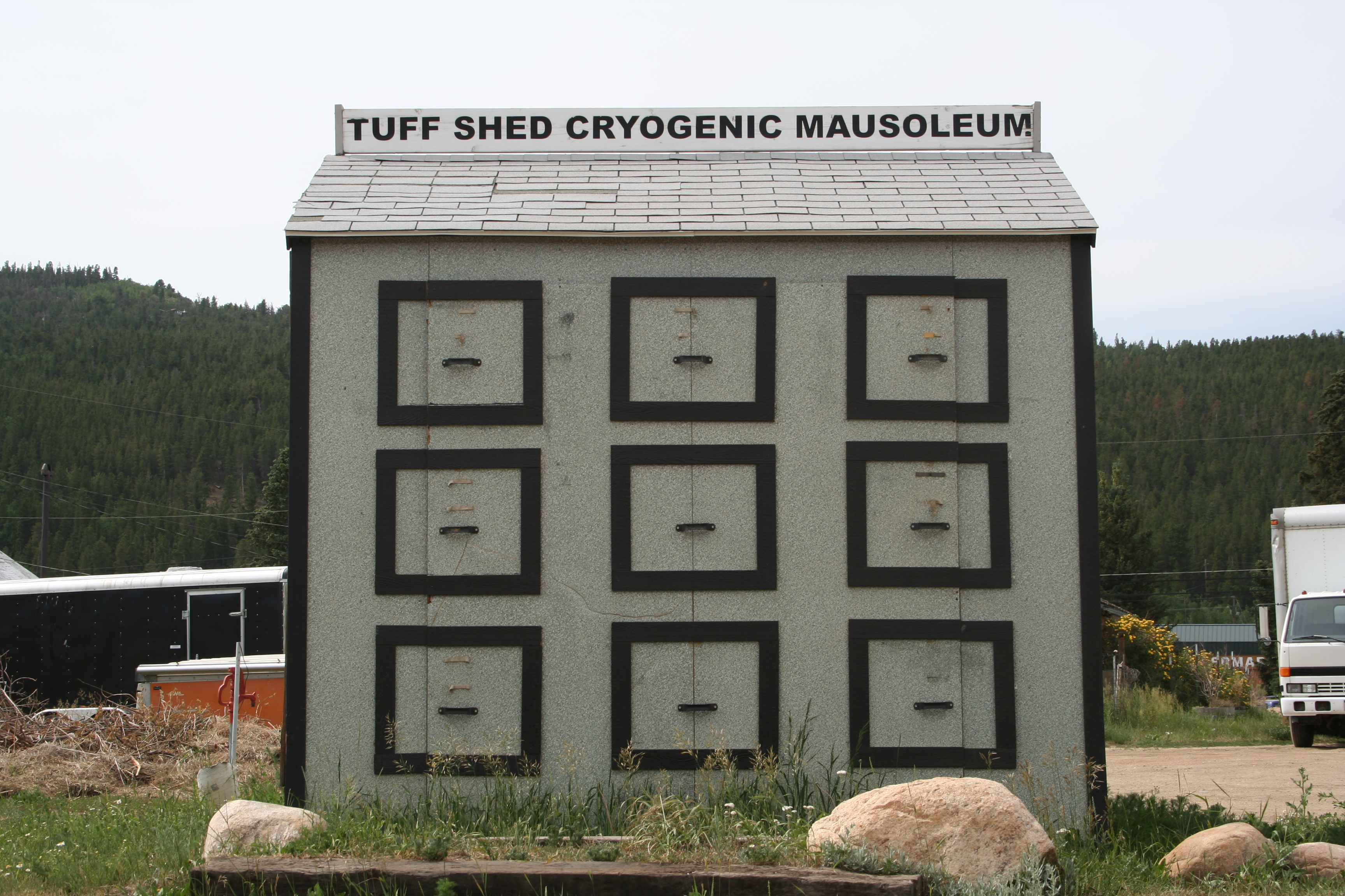 Frozen Dead Guy Days photo